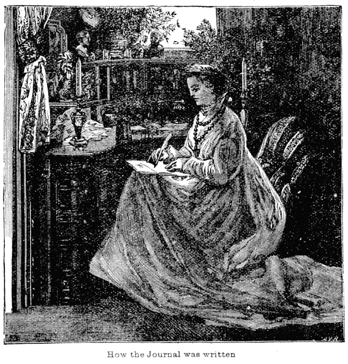 Anna Brassey (nee Allnut) (1839-1887)[1] was an English traveller and writer. Her bestselling book: A Voyage in the Sunbeam, our Home on the Ocean for Eleven Months was published in 1878. This illustration is from that book The daughter of John Allnut, she married the English member of parliament Sir Thomas Brassey (later Earl Brassey), with whom she lived near his Hastings constituency.